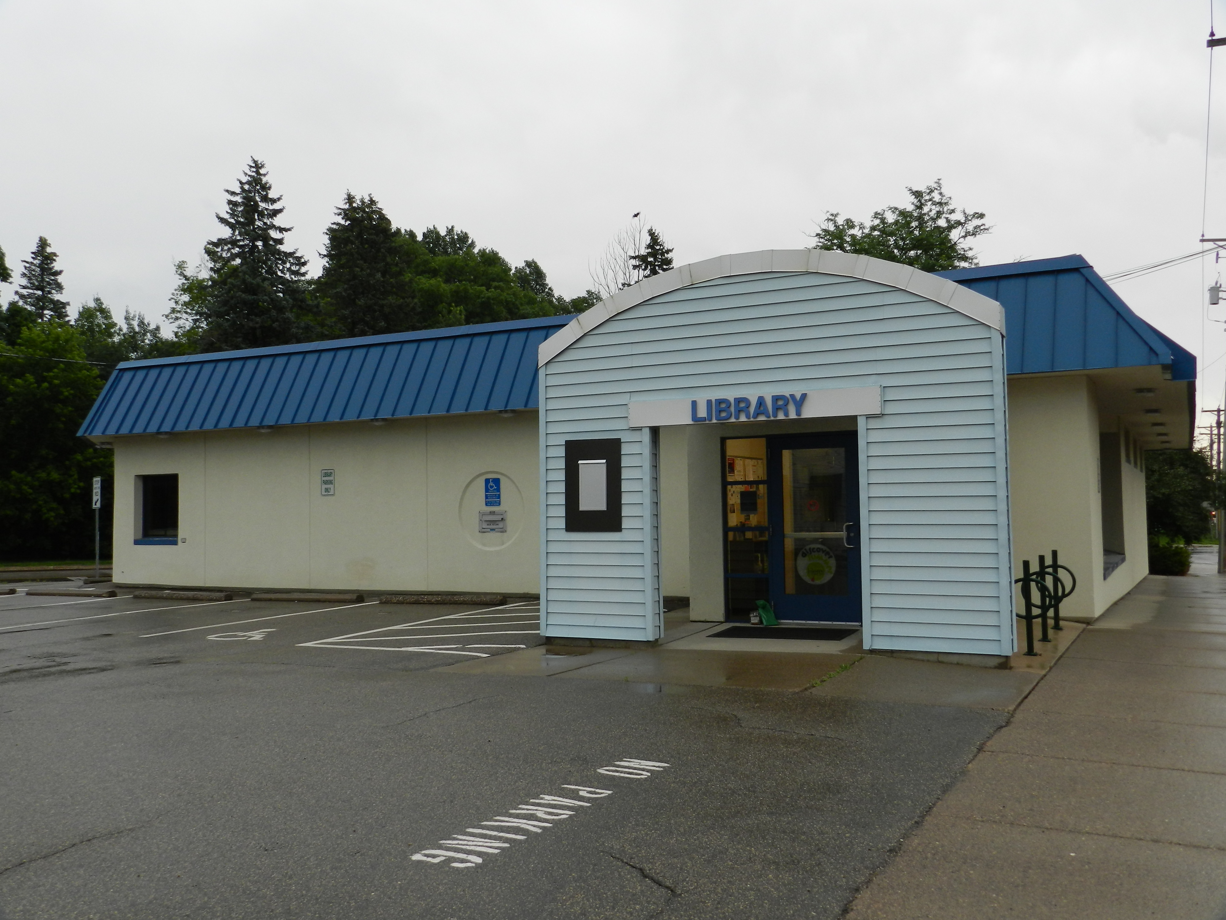 Photo of the branch of the Hennepin County Library located in Maple Plain, Minnesota.